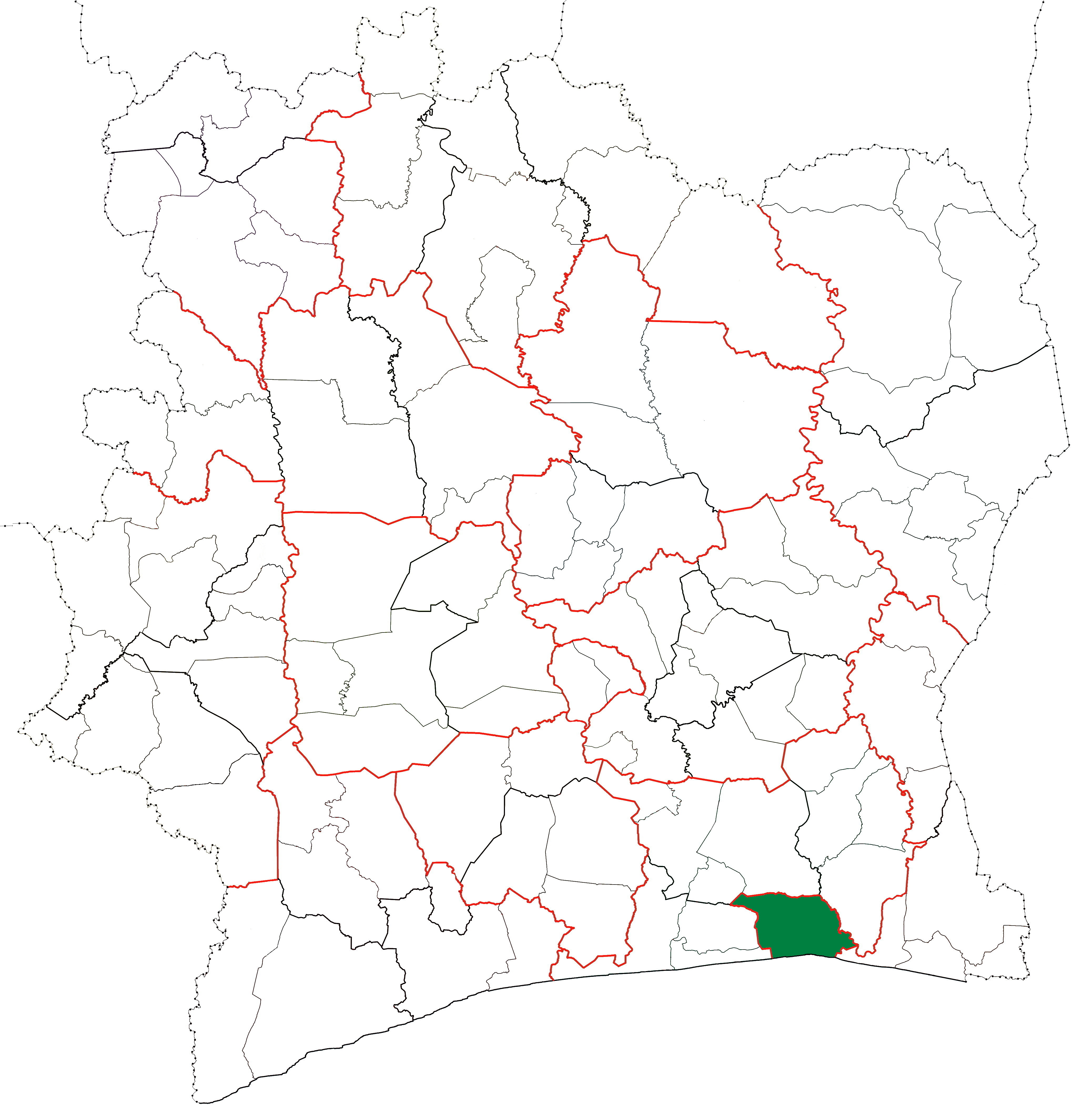 Locator map for Abidjan Department in Côte d'Ivoire.